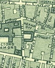 The original plan of the College of Arms (labelled Herald Off.), before the construction of Queen Victoria Street in 1866, as indicated in the 1862 Edward Stanford map of London